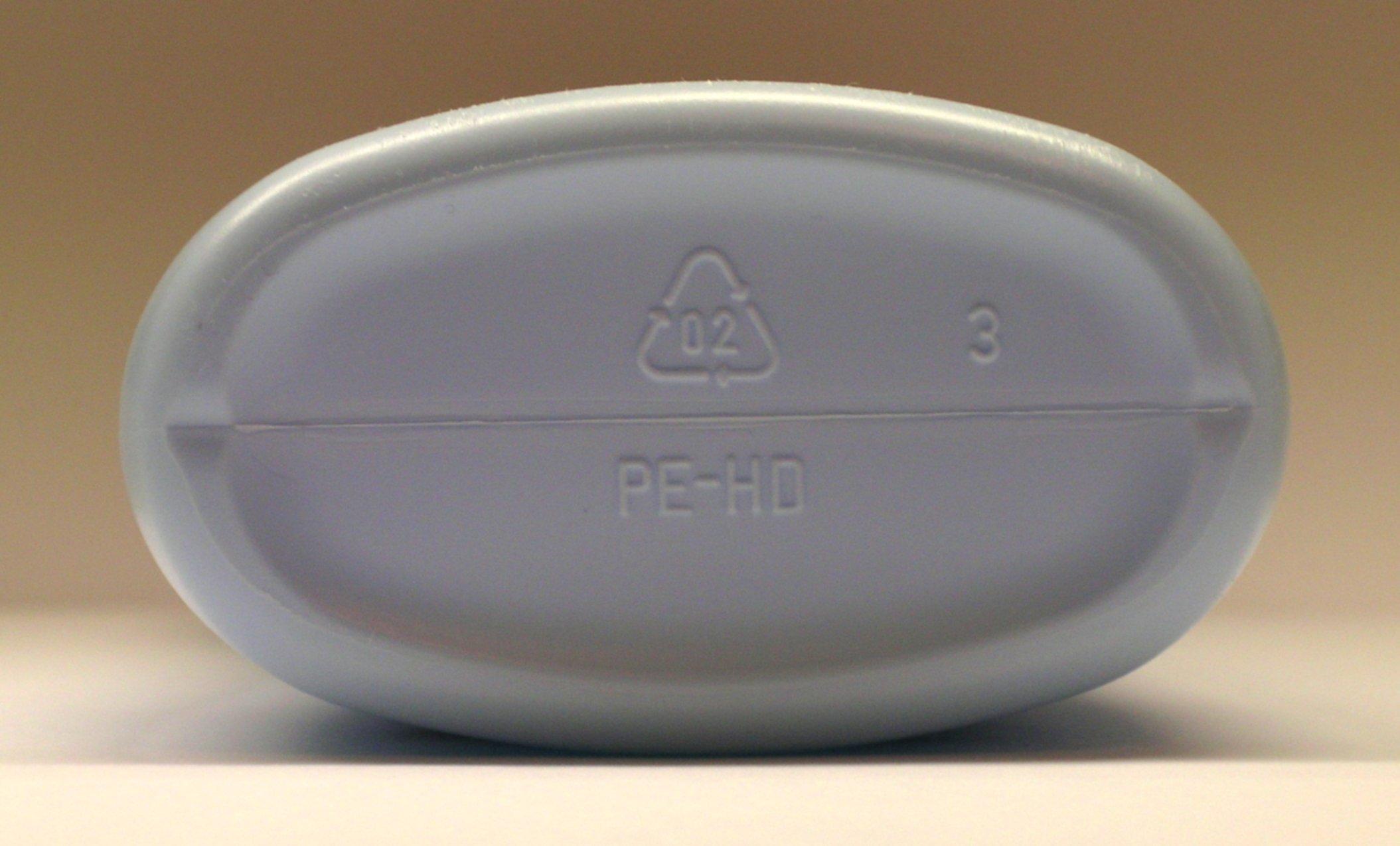 blow molded bottle of shampoo with typical pinch-off weld at the bottom